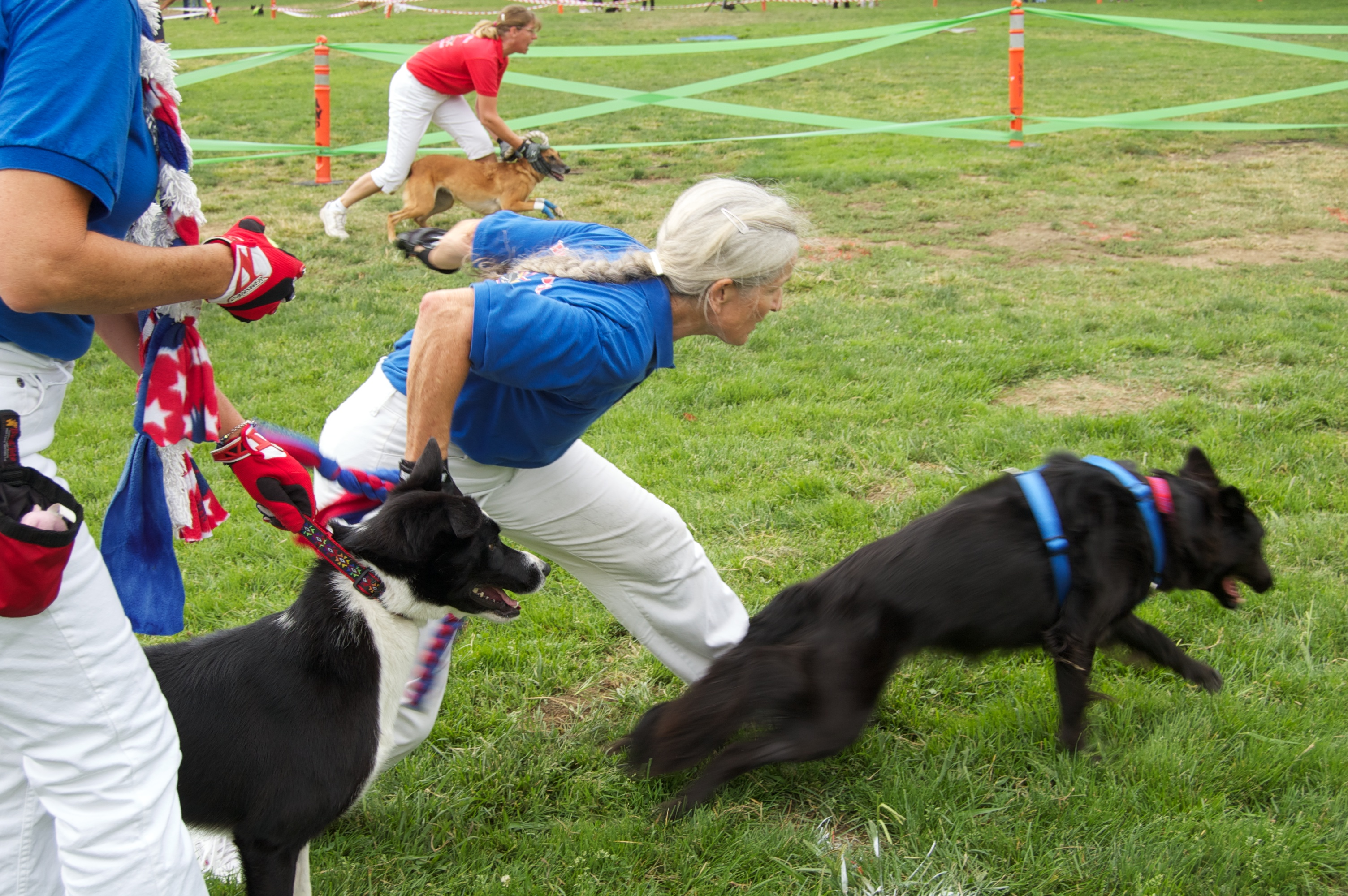 Scene from the Bark in the Park Event - 9/18/2010